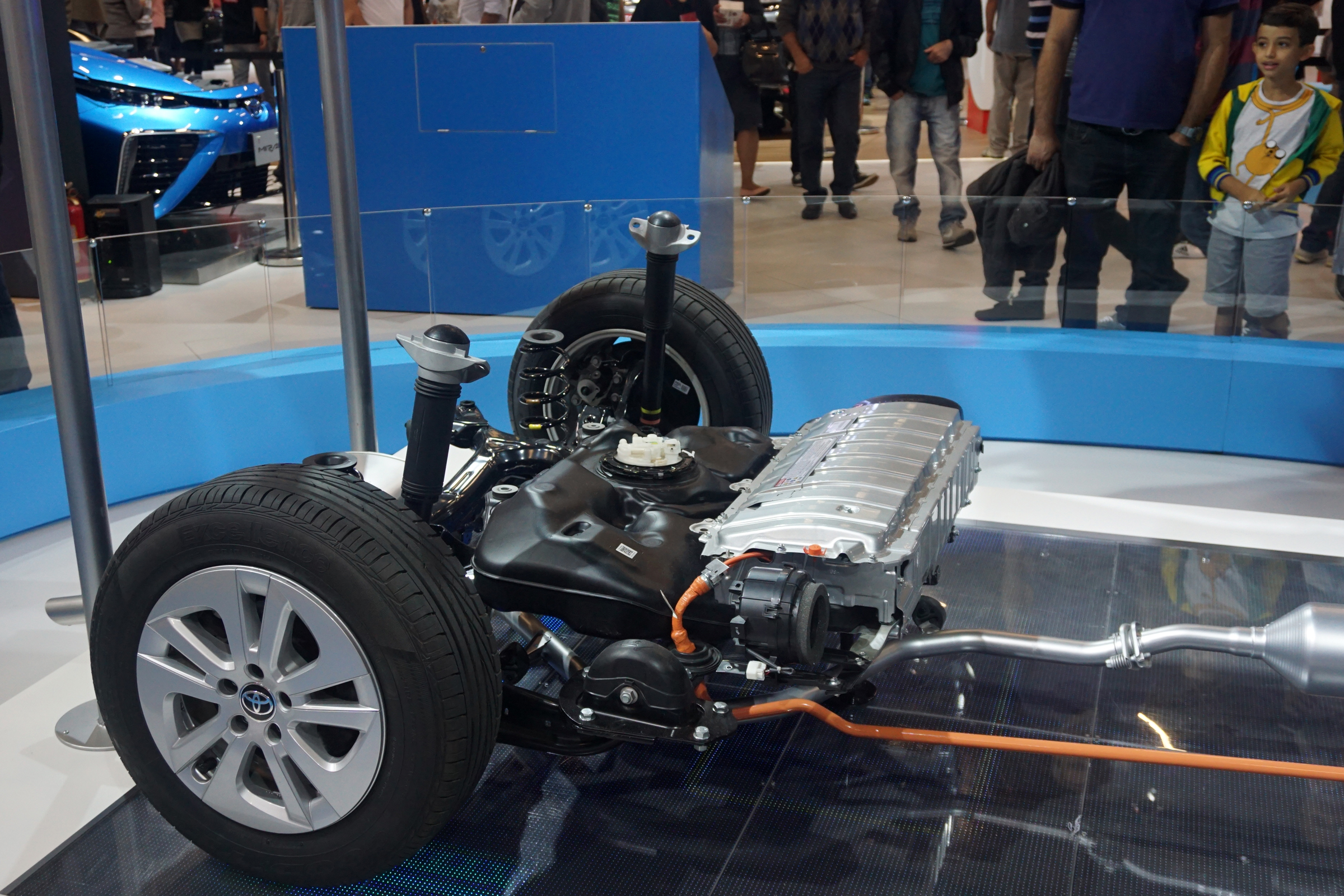 2016 Toyota Prius (fourth generation) hybrid car exhibited at the Salão Internacional do Automóvel 2016 São Paulo, Brazil.